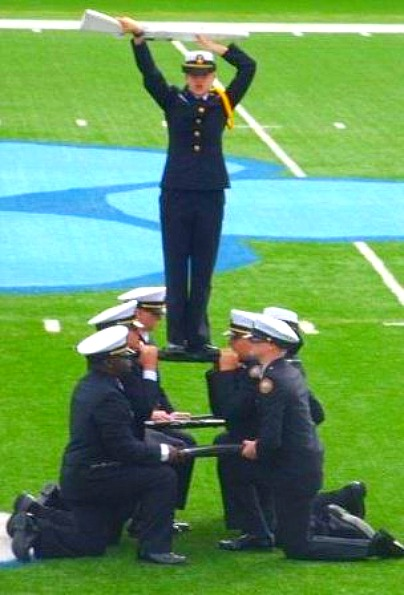 Armed Demonstration, Navy JROTC, Camden County High School, Kingsland, Georgia, USA